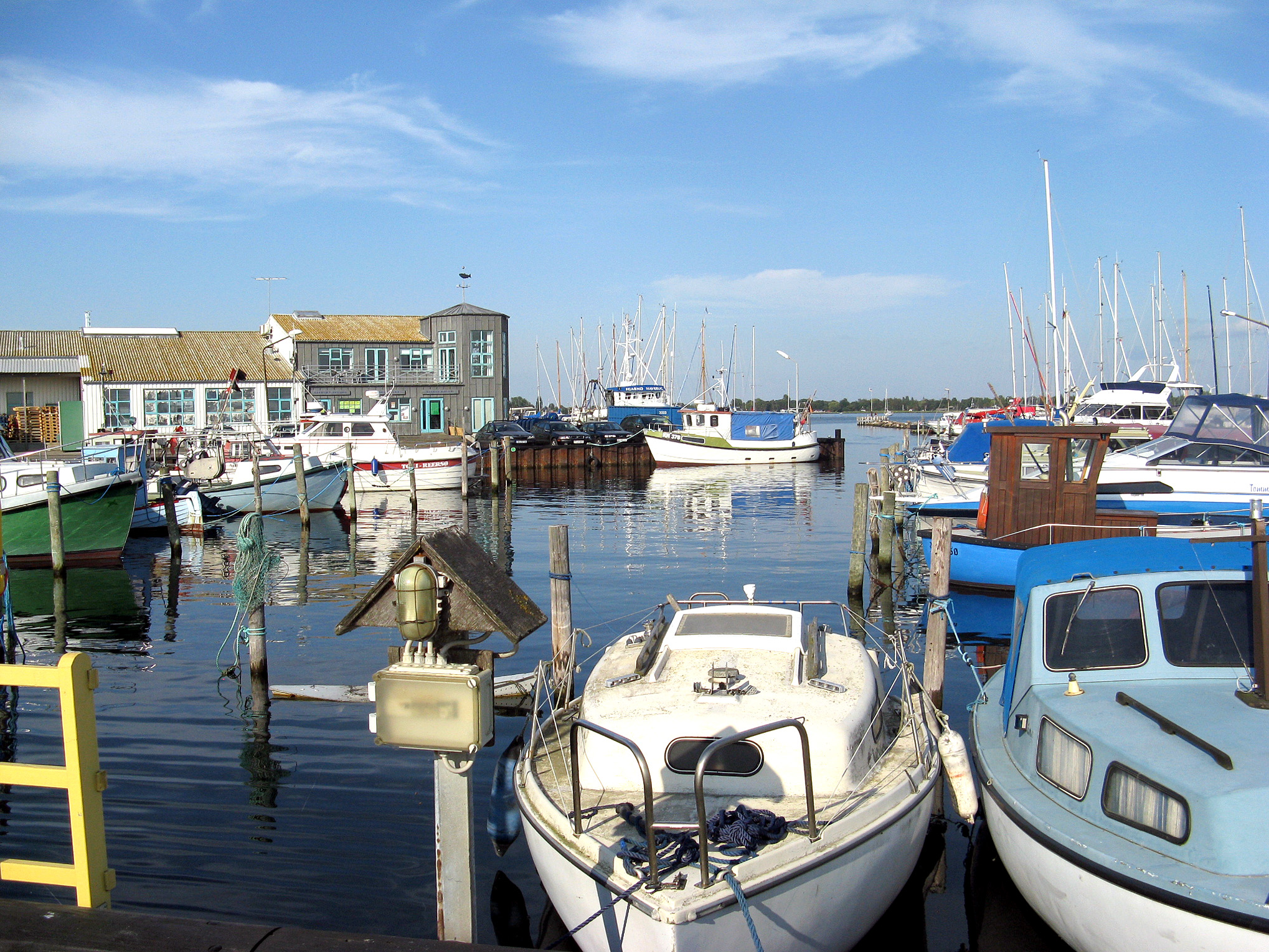 The harbour of Reersø